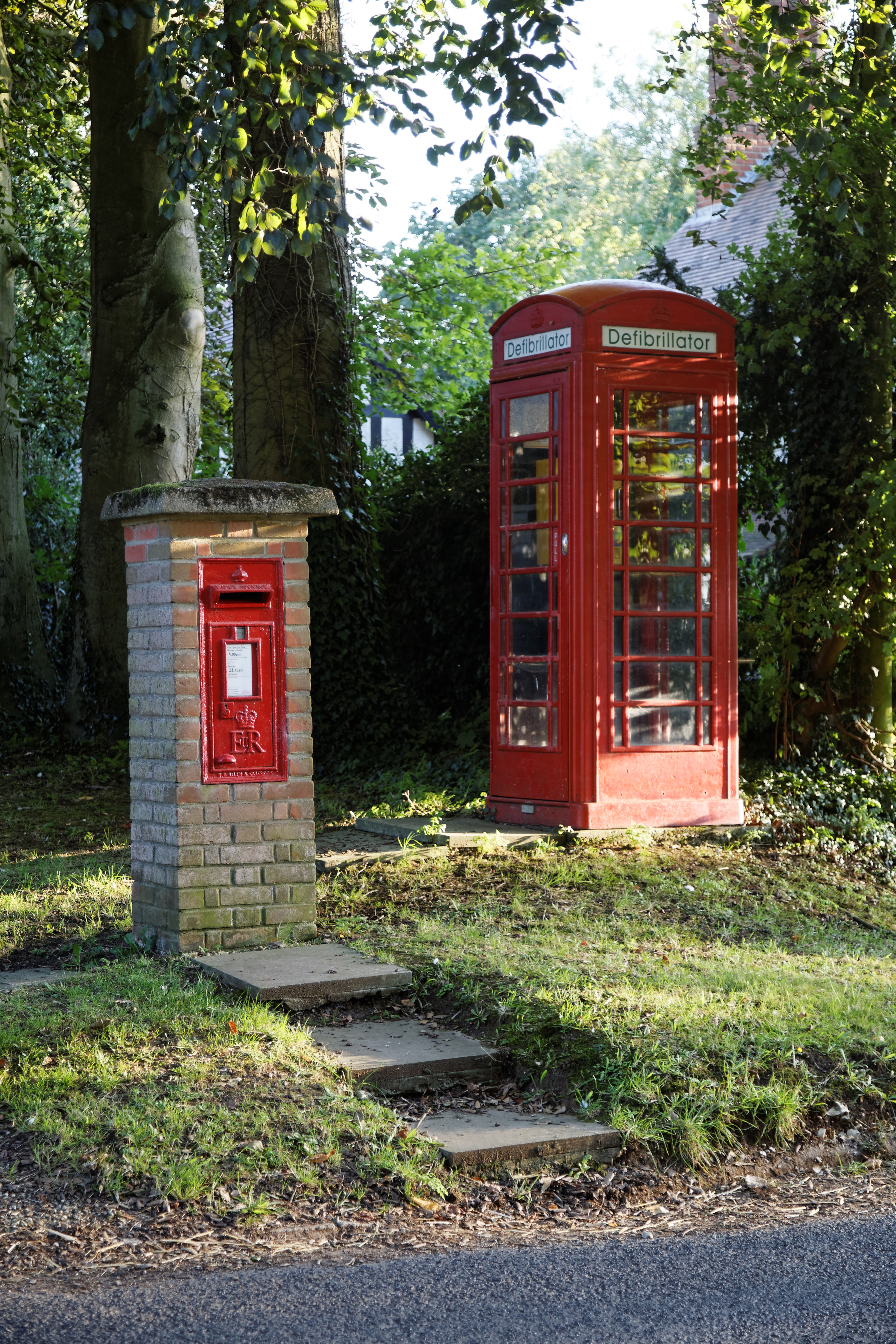 Telephone box, re-designated as a defibrillator station, and a post box at the side of the B1038 road at Brent Pelham in Hertfordshire, England.Software: RAW file lens-corrected, optimized and converted to JPEG with DxO OpticsPro 10 Elite, and likely further optimized and/or cropped and/or spun with Adobe Photoshop CS2.